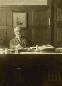 Jacob Nicolai Marstrand (1848-1935), Danish baker and Mayor of Copenhagen